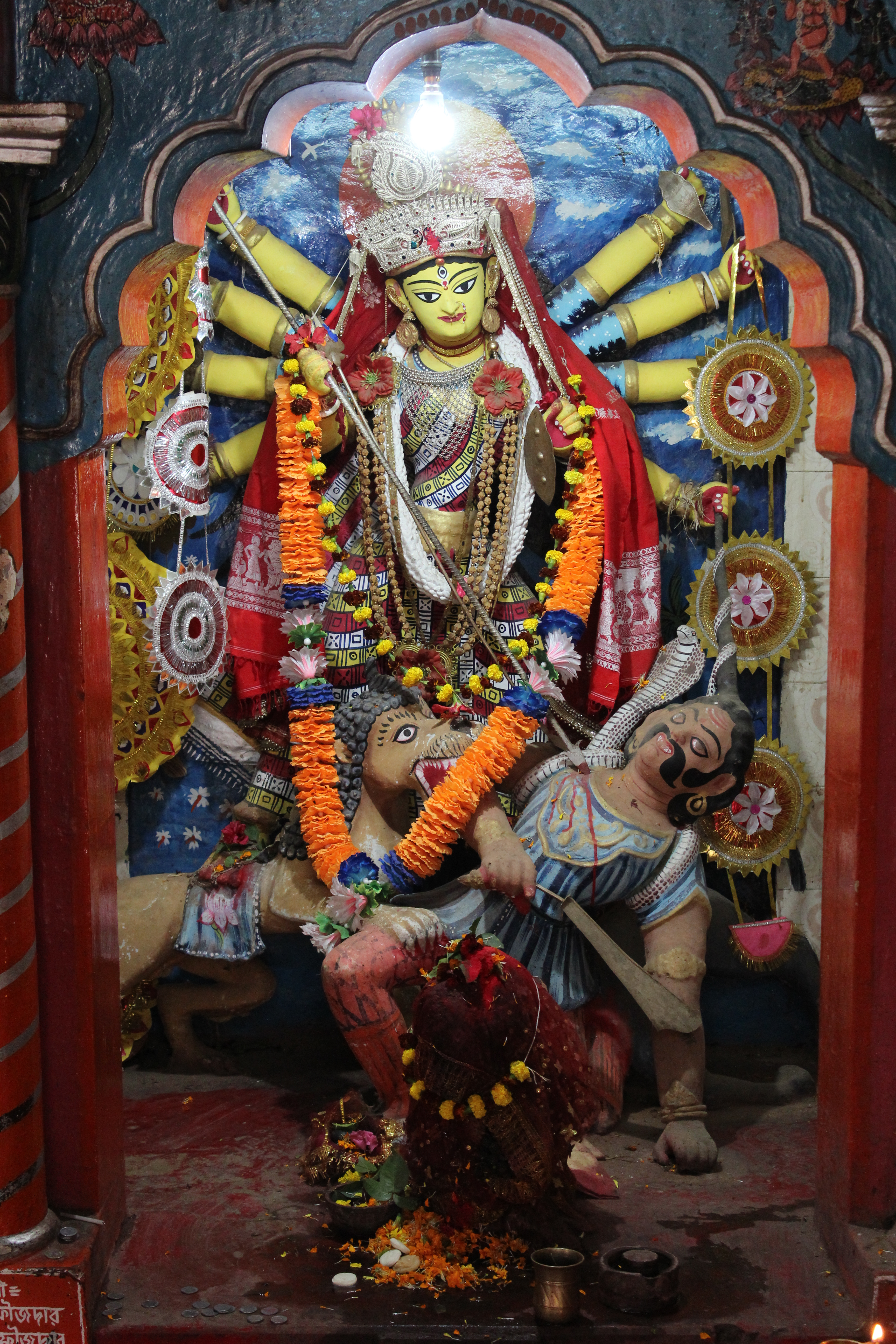 Mrinmoyee temple of Bishnupur in Bankura district